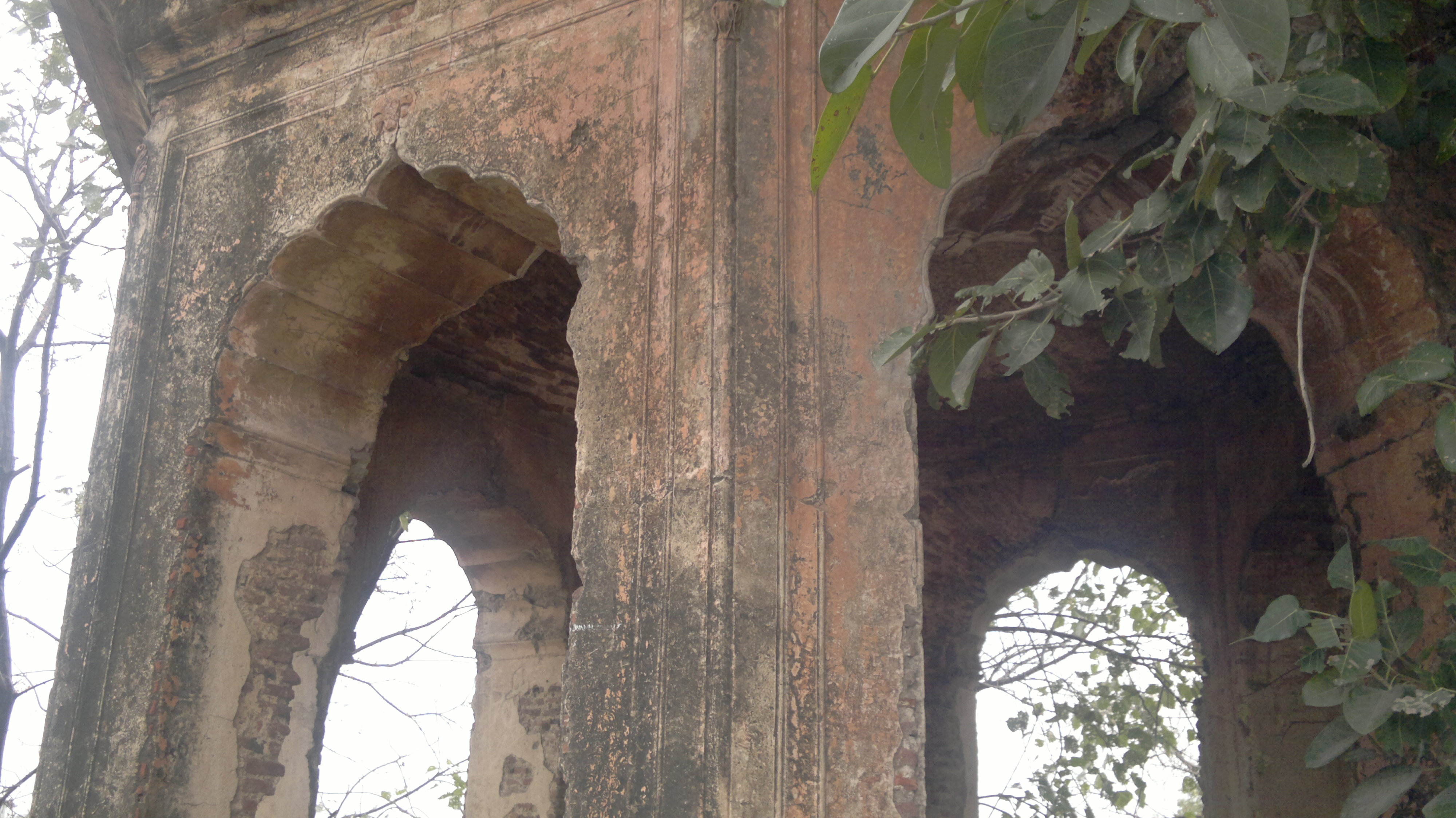 This pavilion is part of a larger complex consisting of a ruined gateway and a walled enclosure. This is perhaps all that remains of Bagh Mahram Khan, a walled garden built by one Mahram Khan, the head-eunuch at the court of the Mughal Emperor Jahangir.